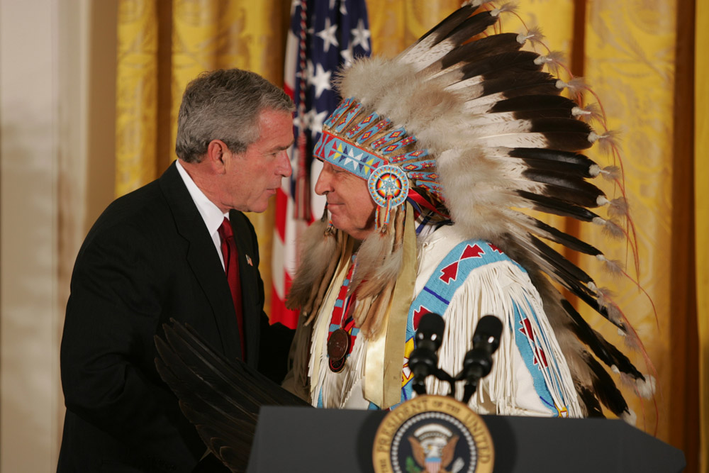 President George W. Bush greets Sen. Benjamin Nighthorse Campbell, R-Colo., during a ceremony marking the opening of the National Museum of the American Indian in the East Room Thursday, Sept. 23, 2004. White House photo by Paul Morse